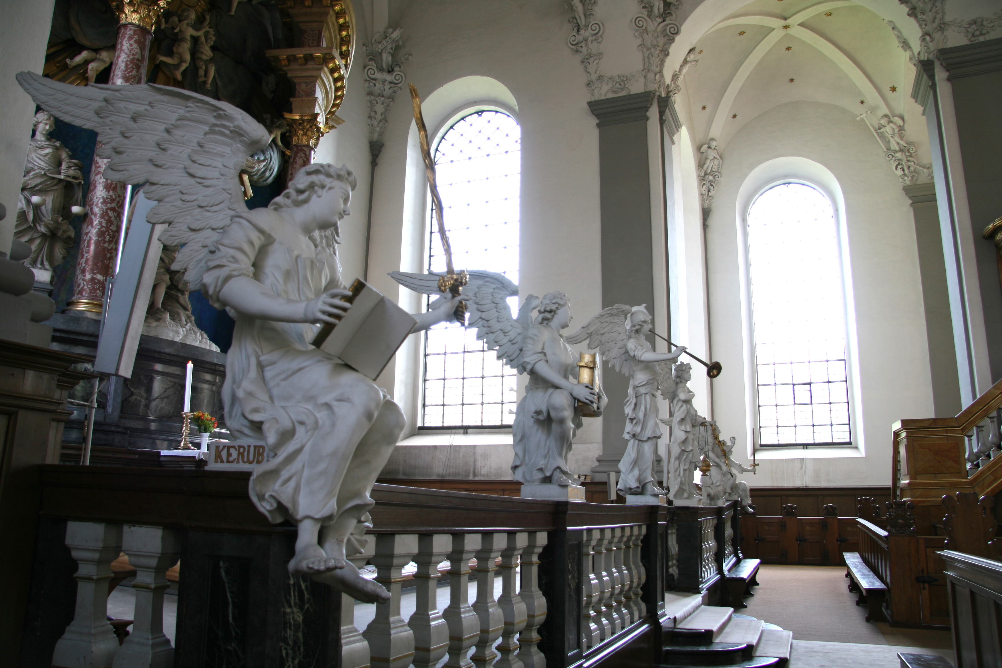 Vor Frelser Kirke (Church of Our Saviour), Copenhagen, Denmark. Angels guarding the quire.